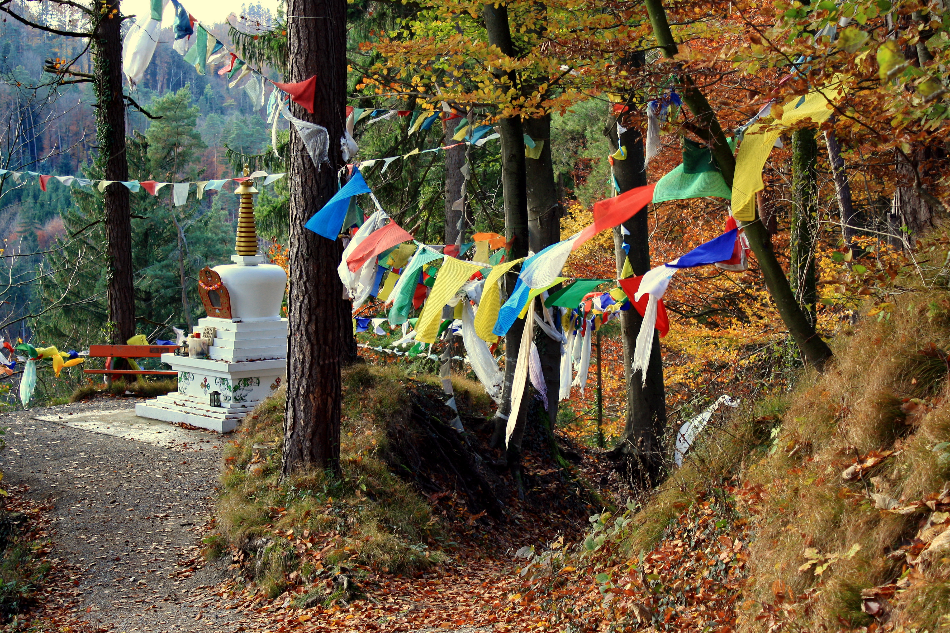 Shrine of the Tibetan monastery Tibet Institute Rikon in Zell-Rikon (Switzerland).